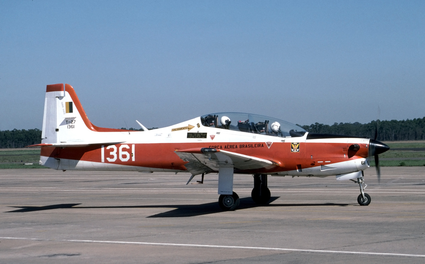 Pirassununga near Sao Paulo is where all future Brazilian pilots learn to fly. The Academia da Força Aérea is here. A busy place full of T-25 Universals and T-27 Tucanos. Photo taken in July 1994.